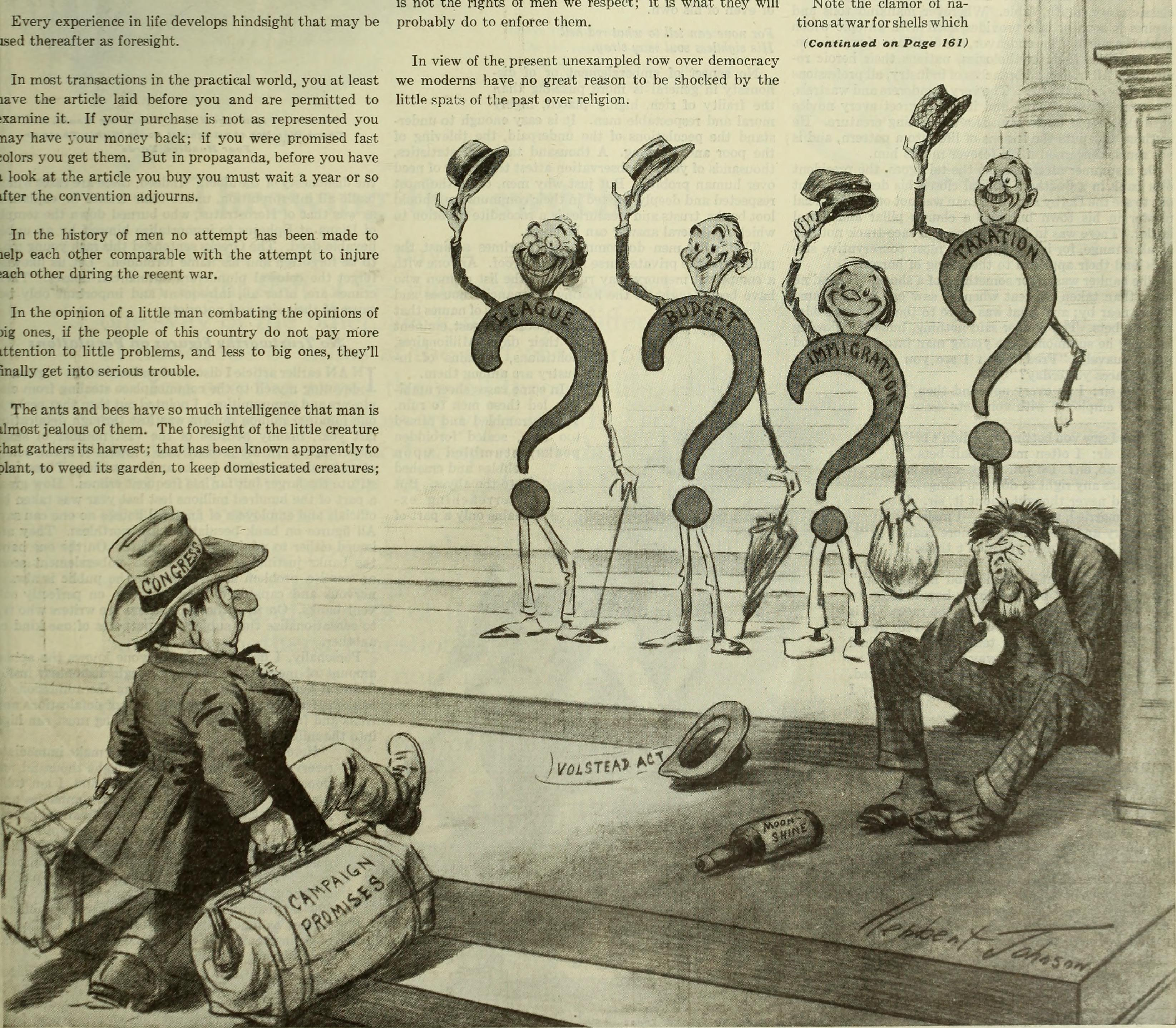 Title: The Saturday evening post Year: 1839 (1830s) Authors: Subjects: Publisher: Philadelphia : G. Graham Text Appearing Before Image: sition. Itis not the rights of men we respect; it is what they willprobably do to enforce them. In view of the present unexampled row over democracywe moderns have no great reason to be shocked by thelittle spats of the past over religion. There are so many simple programs that will alwayswork and are always right that many of the big ones maybe safely neglected. It isnt just if I am ordered about by a policeman or bowto a judge, that another man may take away the police-mans club or mash the judges hat. The problem that requires the attention of a commissionusually cannot be solved; and the salaries and expenses ofmembers of the commission become another problem. Ifthe experience and simple common sense of your neigh-bors cant help you there probably is no remedy. Anexpert may look wiser thananyone you have consultedbefore, but his final deci-sion will be what you knewin the first place, if he is areal expert. Note the clamor of na-tions at war for shells which(Continued on Page 161) Text Appearing After Image: Good Morning, Judge 28 THE SATURDAY EVENING POST December II, 1920